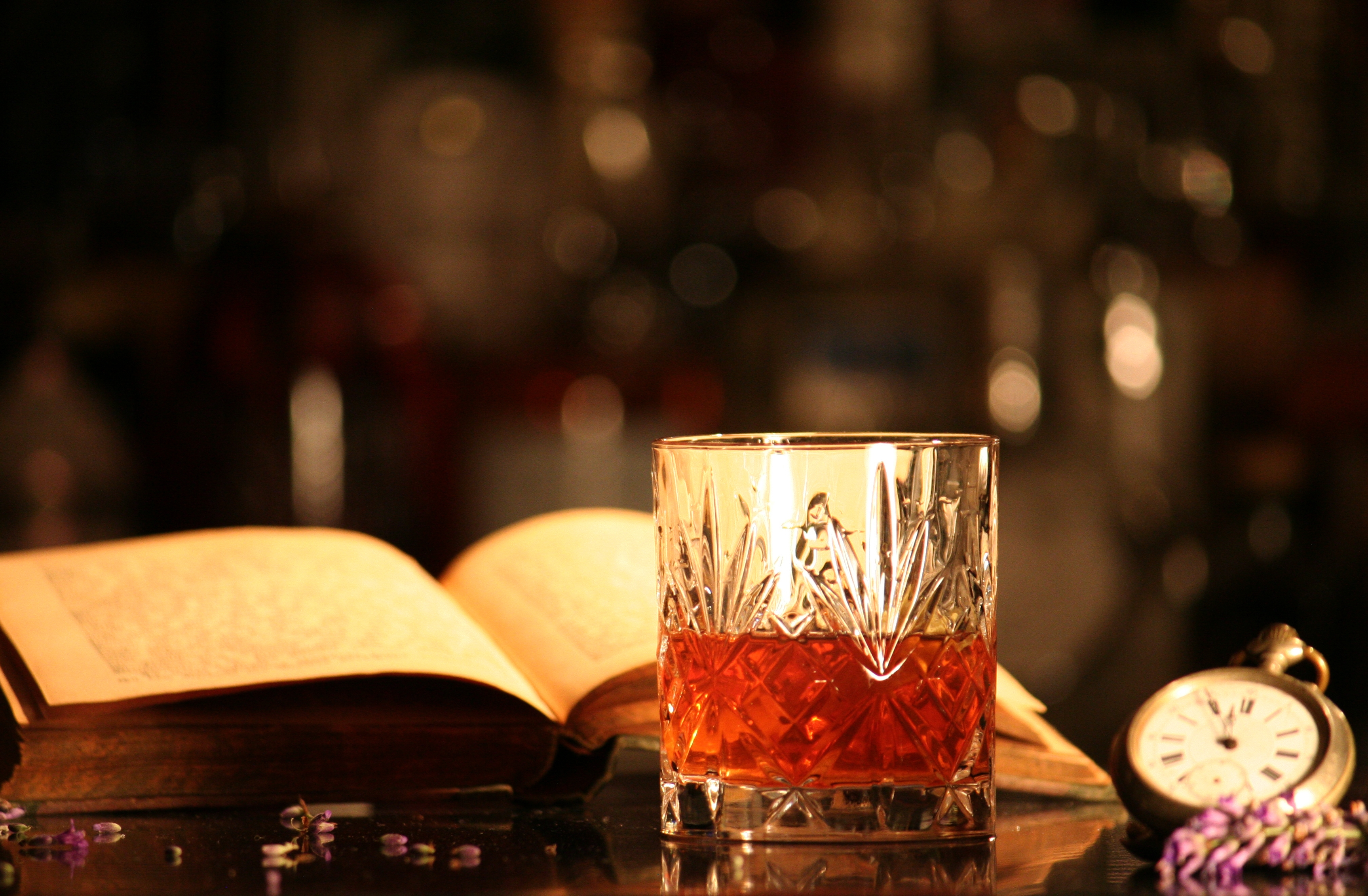 Sazerac in a classical Old Fashioned glass. Made with Rye.